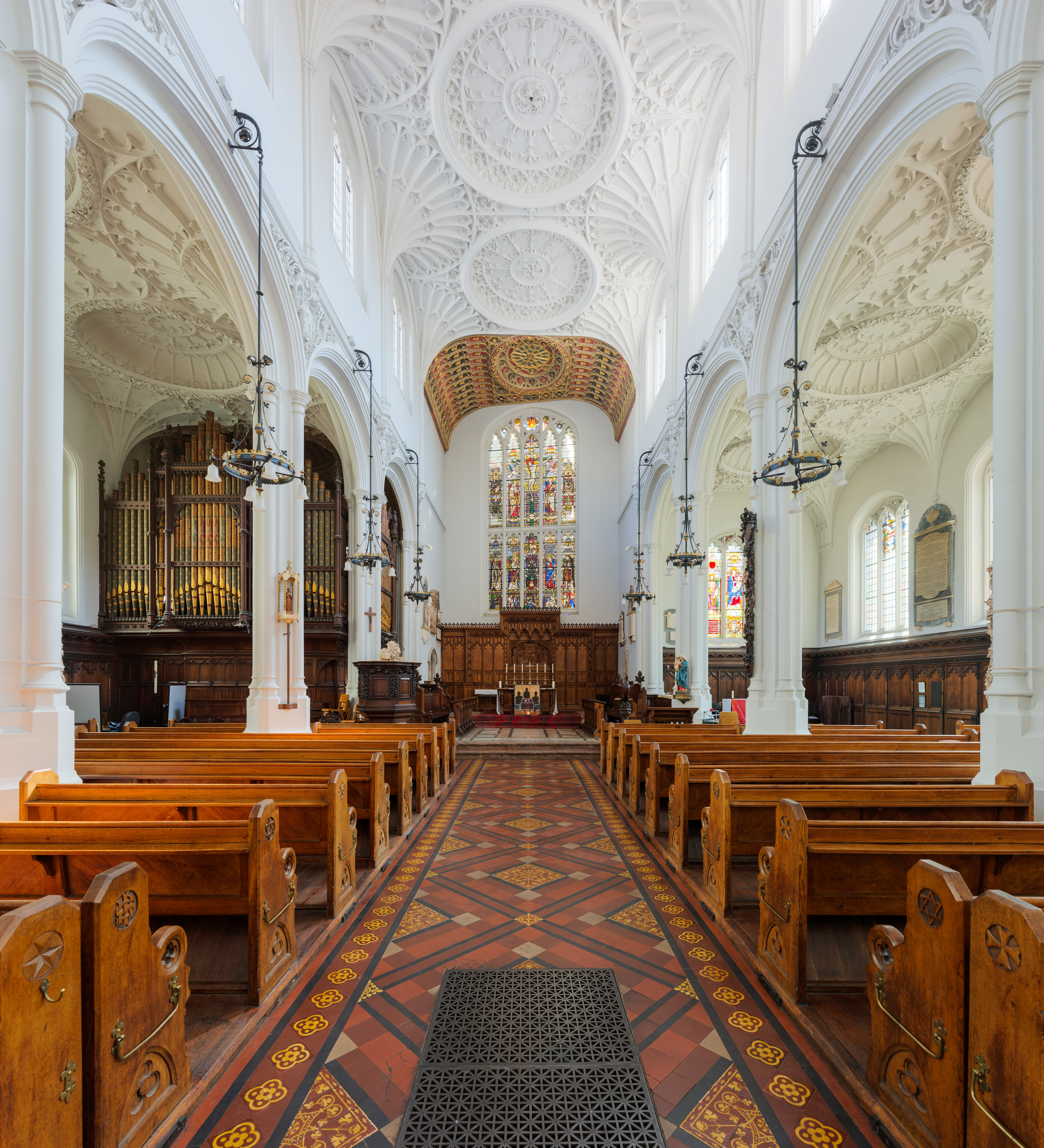 The interior of St Mary Aldermary Church, facing the altar.